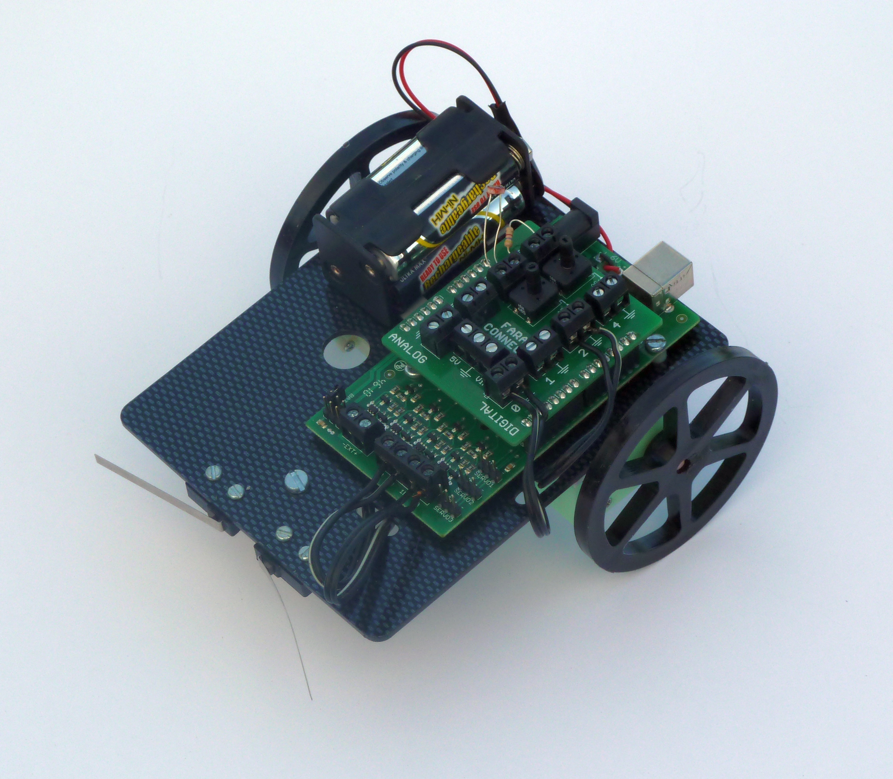 Faraduino buggy kit, using the Faraduino Arduino-compatible